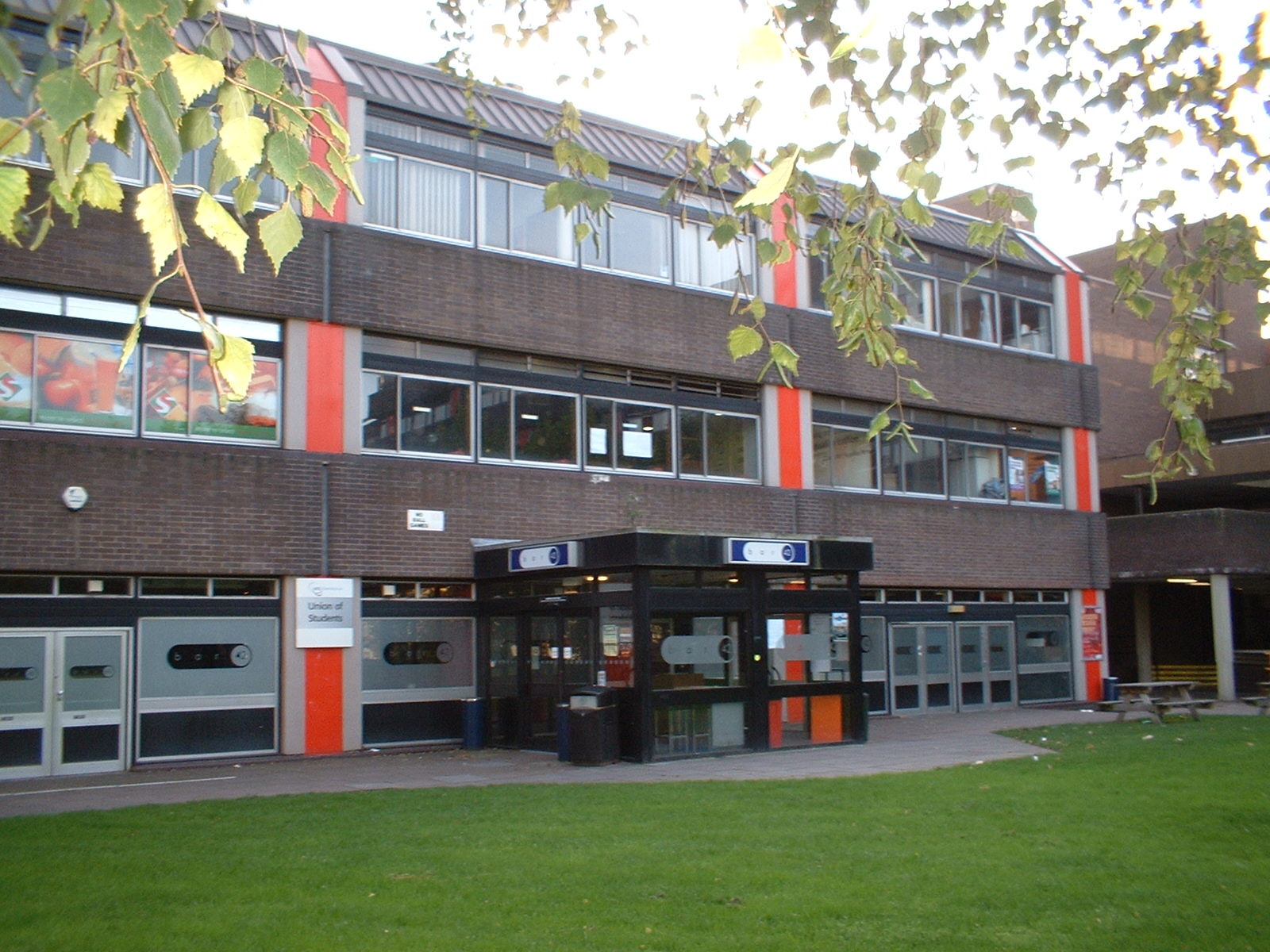 Bar 42 (Student Union bar), UCE Birmingham